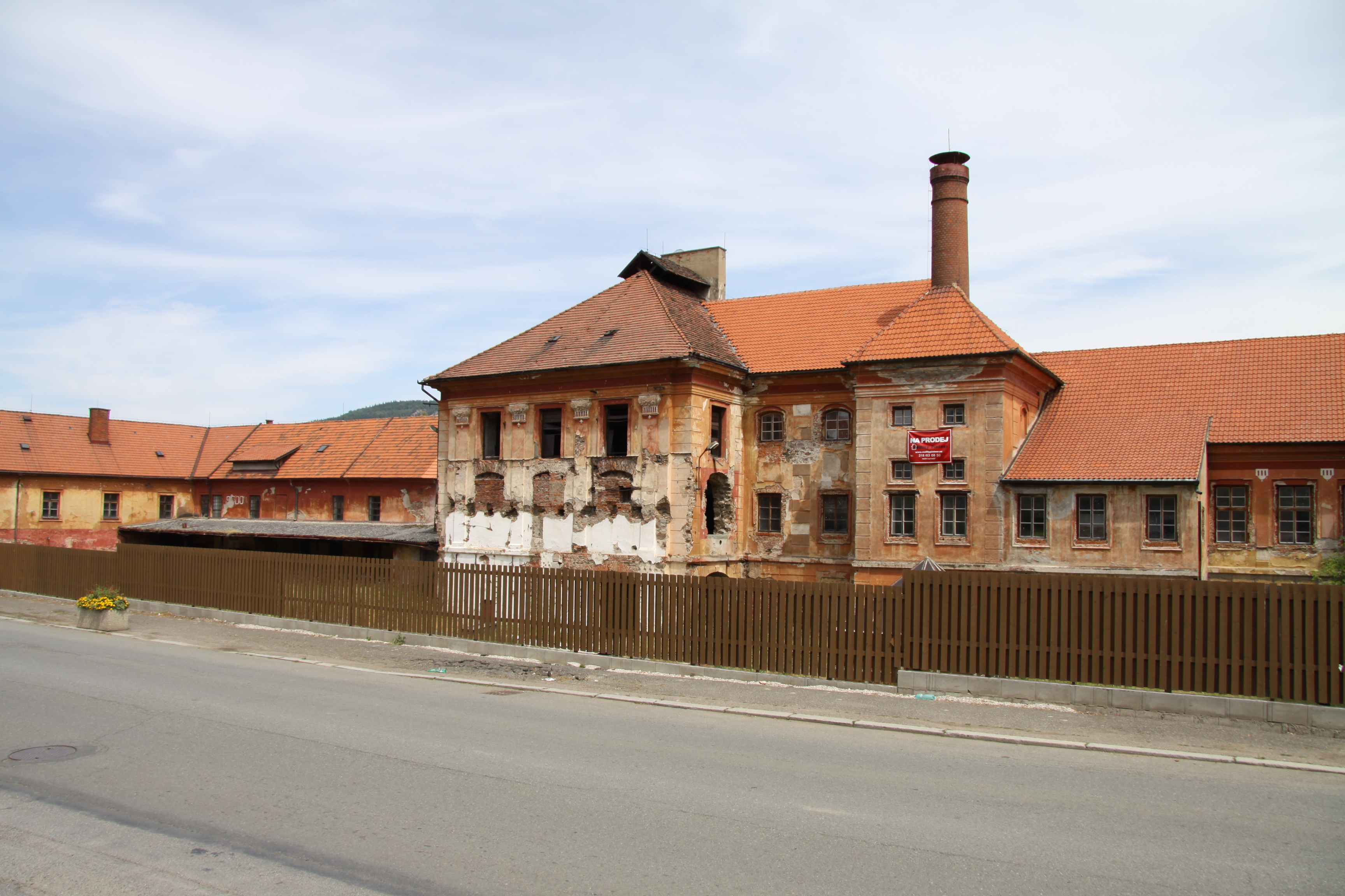 Market town and municipality Jince in Příbram District, Czech Republic. Building of former chatau and brewery.